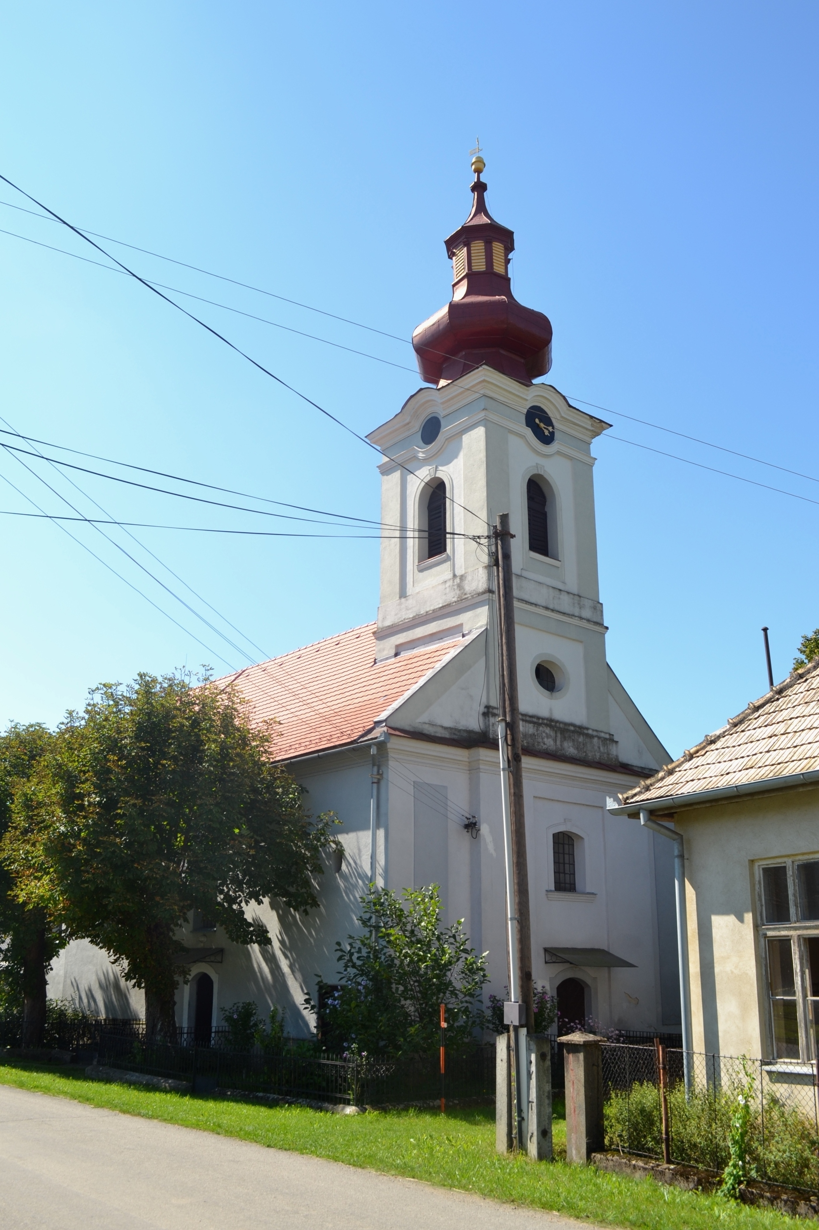 Lutheran church in the village Veľká VesSlovenčina: Evanjelický kostol v obci Veľká Ves Object location48° 22′ 53.94″ N, 19° 40′ 27.98″ E